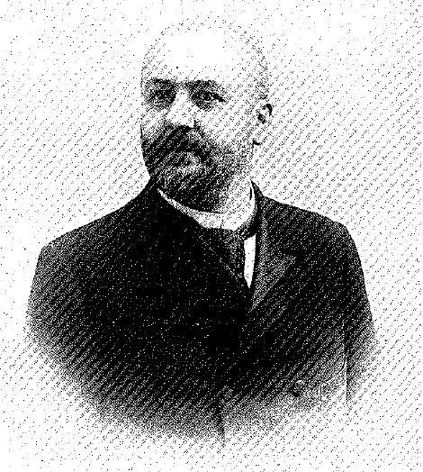 Portray of Jules Payot (educationist) taken from a 1921 Swedish publication of La conquete du bonheur. Photographer unknown. Albert Bonnier publ. published the book